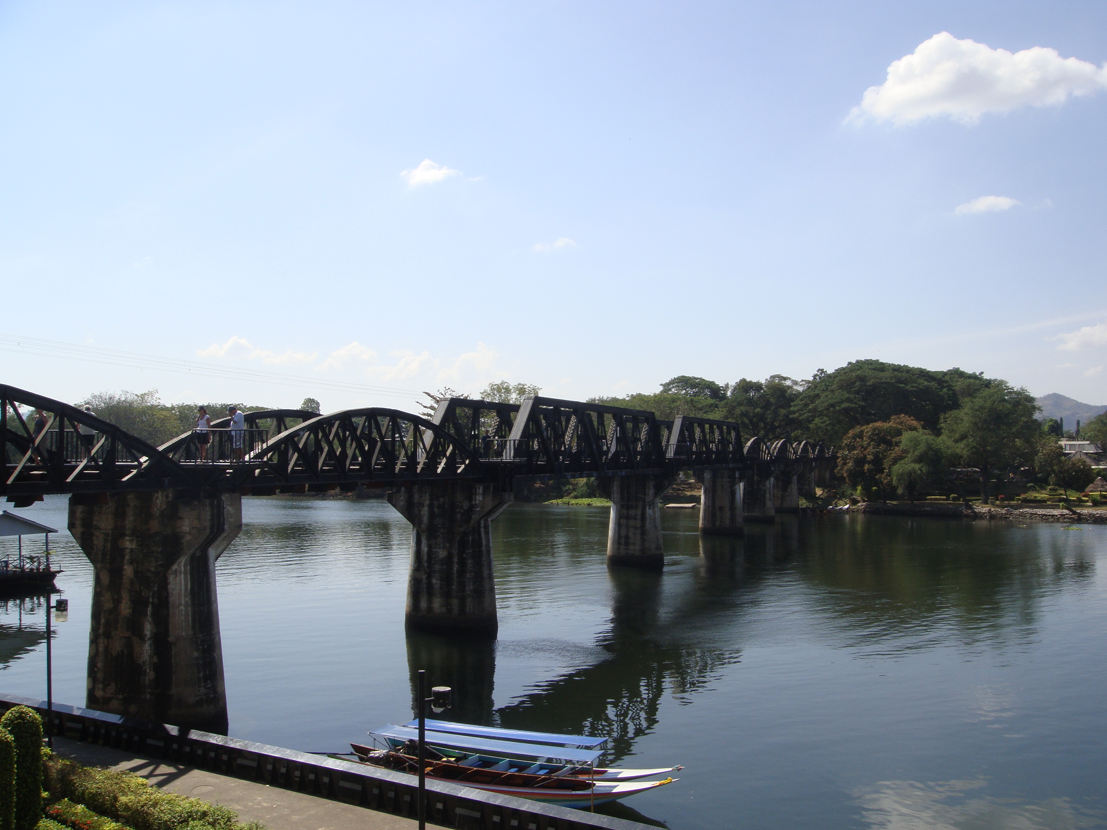 Bridge of the River Kwai, Kanchanaburi, Thailand